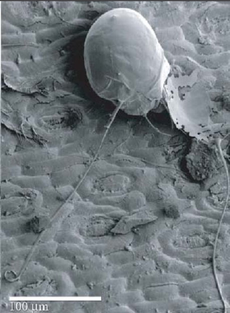 Raoiella Indica - Red Palm Mite Egg